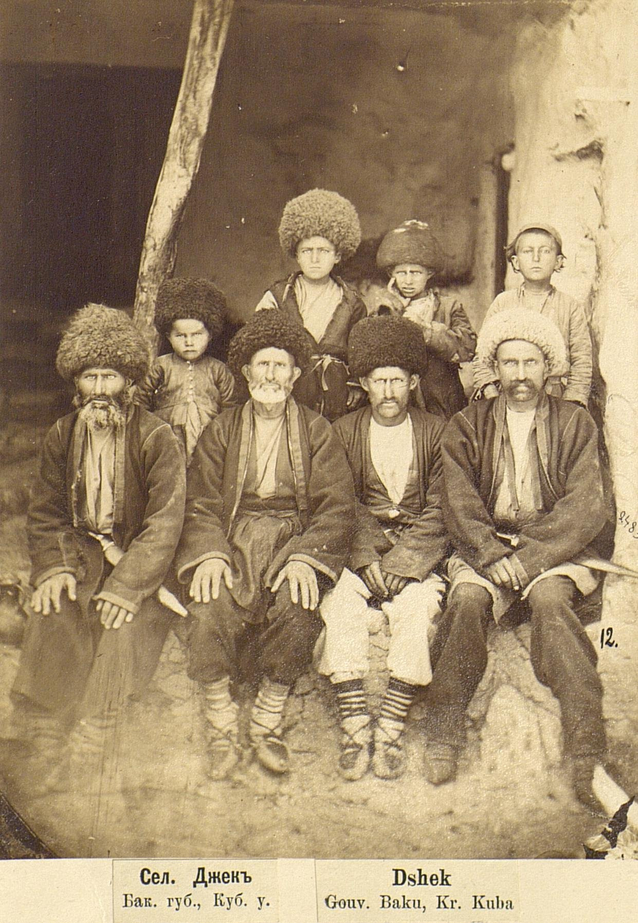 Old men and boys from Djeg settlement